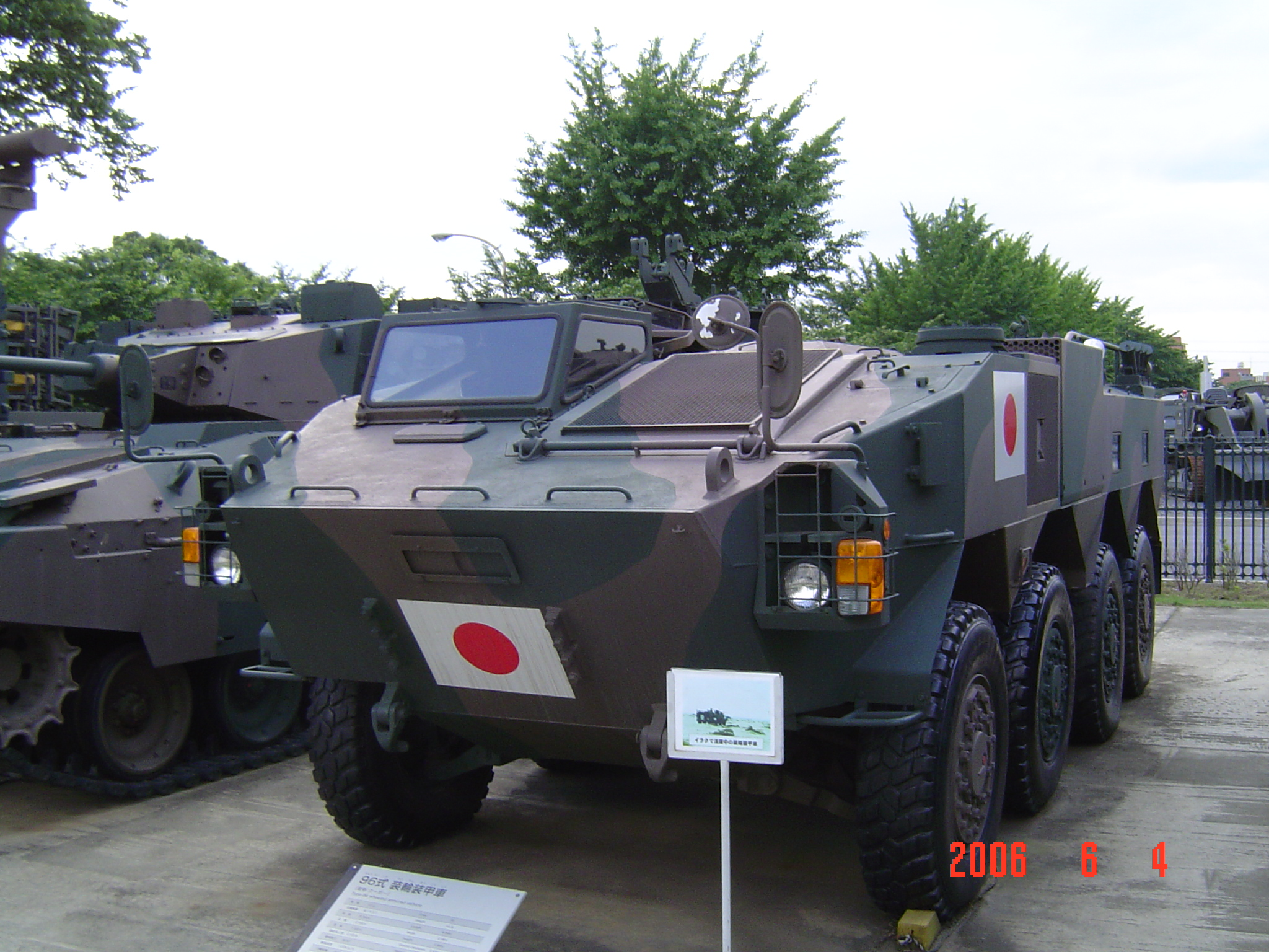 APC type 96 of JGSDF at JGSDF PI center. As it is a exhibition, this vehicle in the photo doesn't have guns. ja:96式装輪装甲車